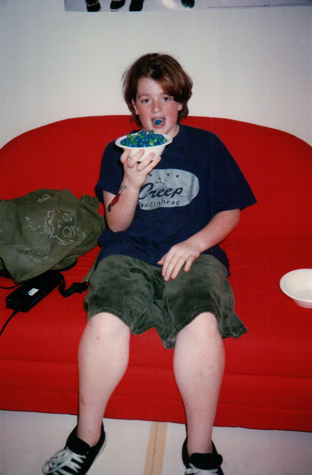 Child actor Danny Tamberelli in the summer of 1995, during the making of The Adventures of Pete & Pete season 3, in New Jersey, USA.